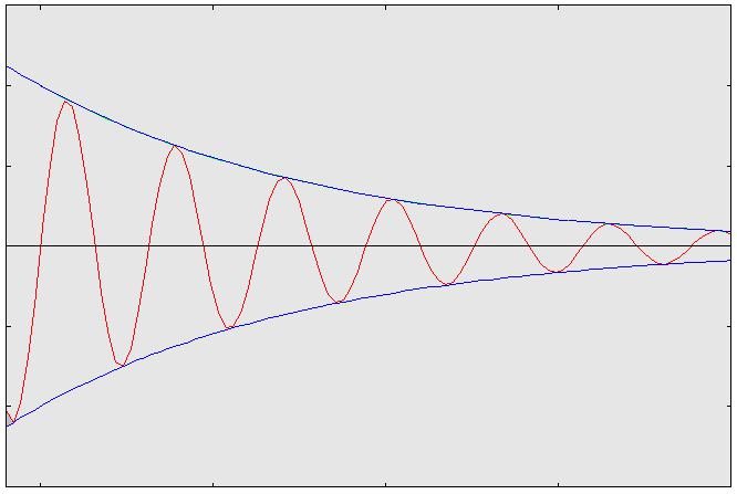 damped harmonic oscillation